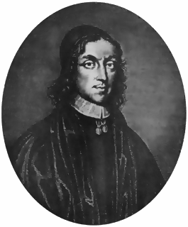 Peter Heylin (1559-1662)